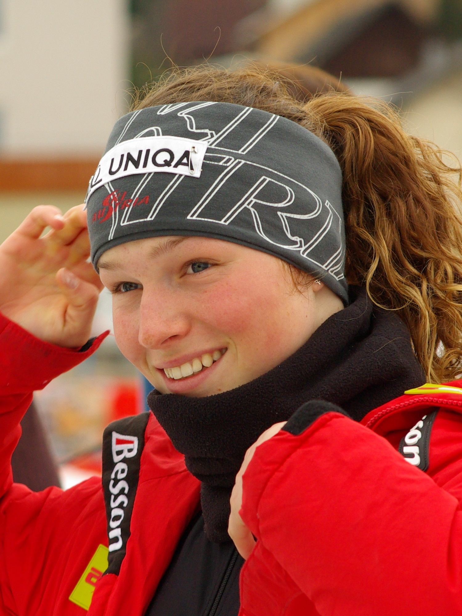 Austrian alpine skier Bernadette Schild at the Austrian Championships 2008 in Haus im Ennstal.